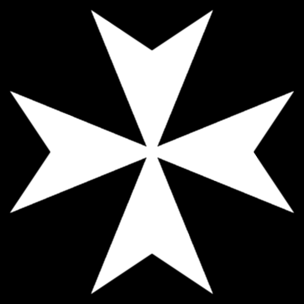 A white Malta cross on a black background, one of the insignias attributed to the Knights Hospitaller